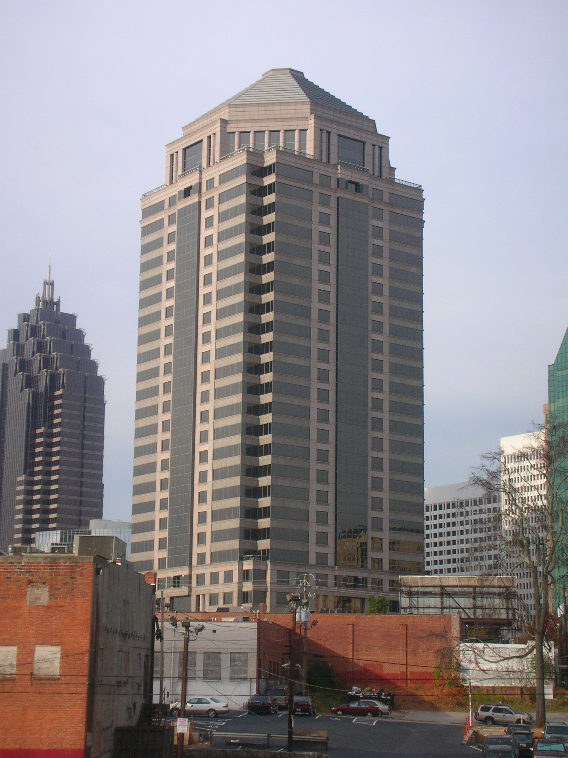 1100 Peachtree, 1100 Peachtree St NE, Atlanta, GA, United States